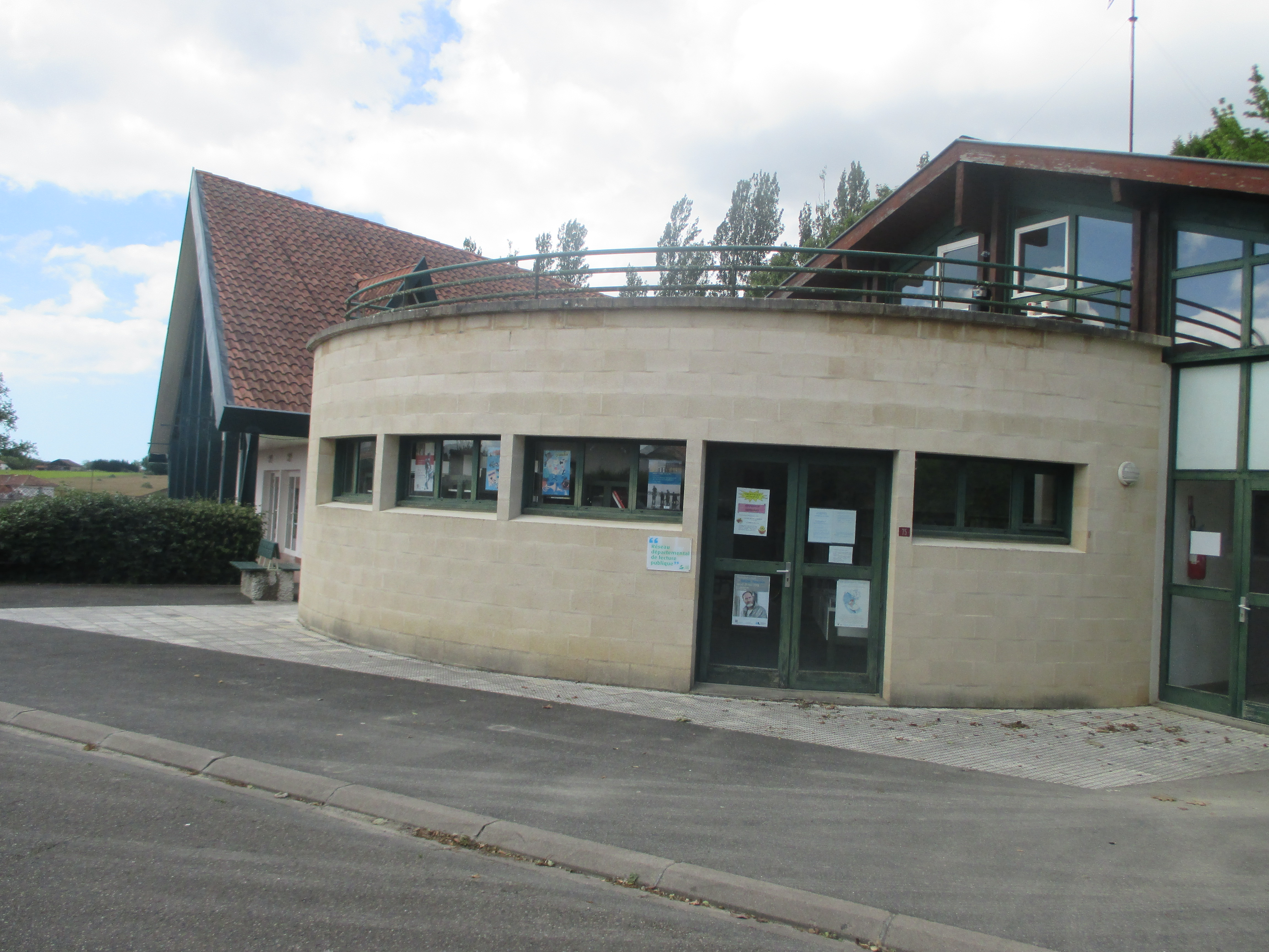 This is the Rivière-Saas-et-Gourby's library.